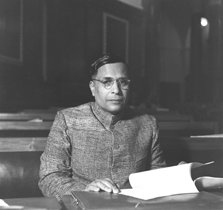 The Hon'ble Shri Shanmukham Chetty, Finance Minister broadcasting on the Budget presented by him in the Indian Parliament in November 1947. From Air, New Delhi.